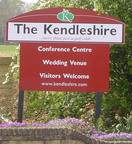 The Kendleshire Golf Club